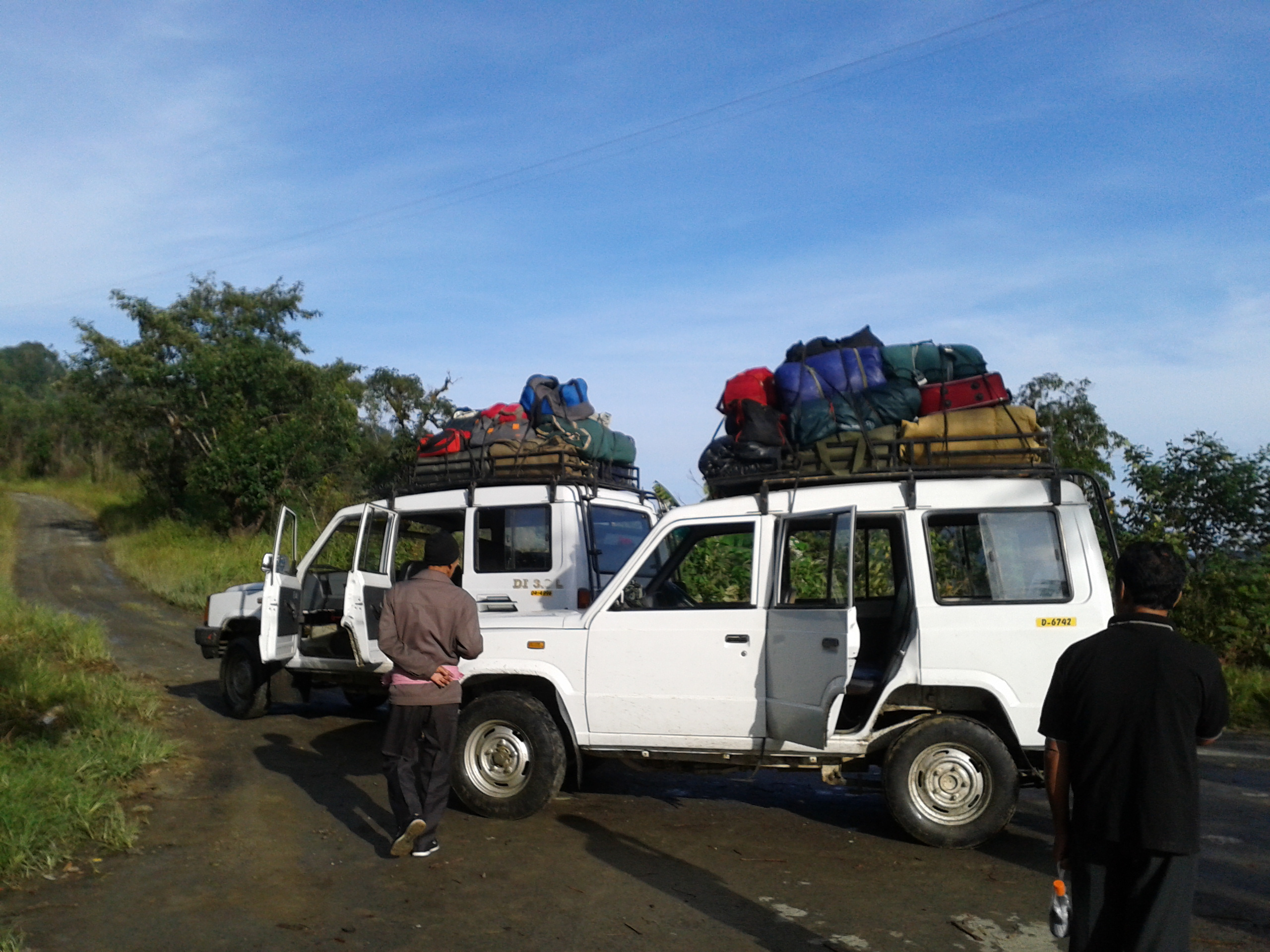 Ngopa Sumo